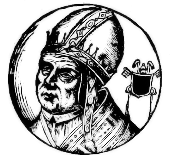 Pope Sylvester II, drawn extracted by Bartolomeo Sacchi said Platina, Vite De' Pontefici, edited by Onofrio Panvinio, per i tipografi Turrini, e Brigonci, Venice 1663